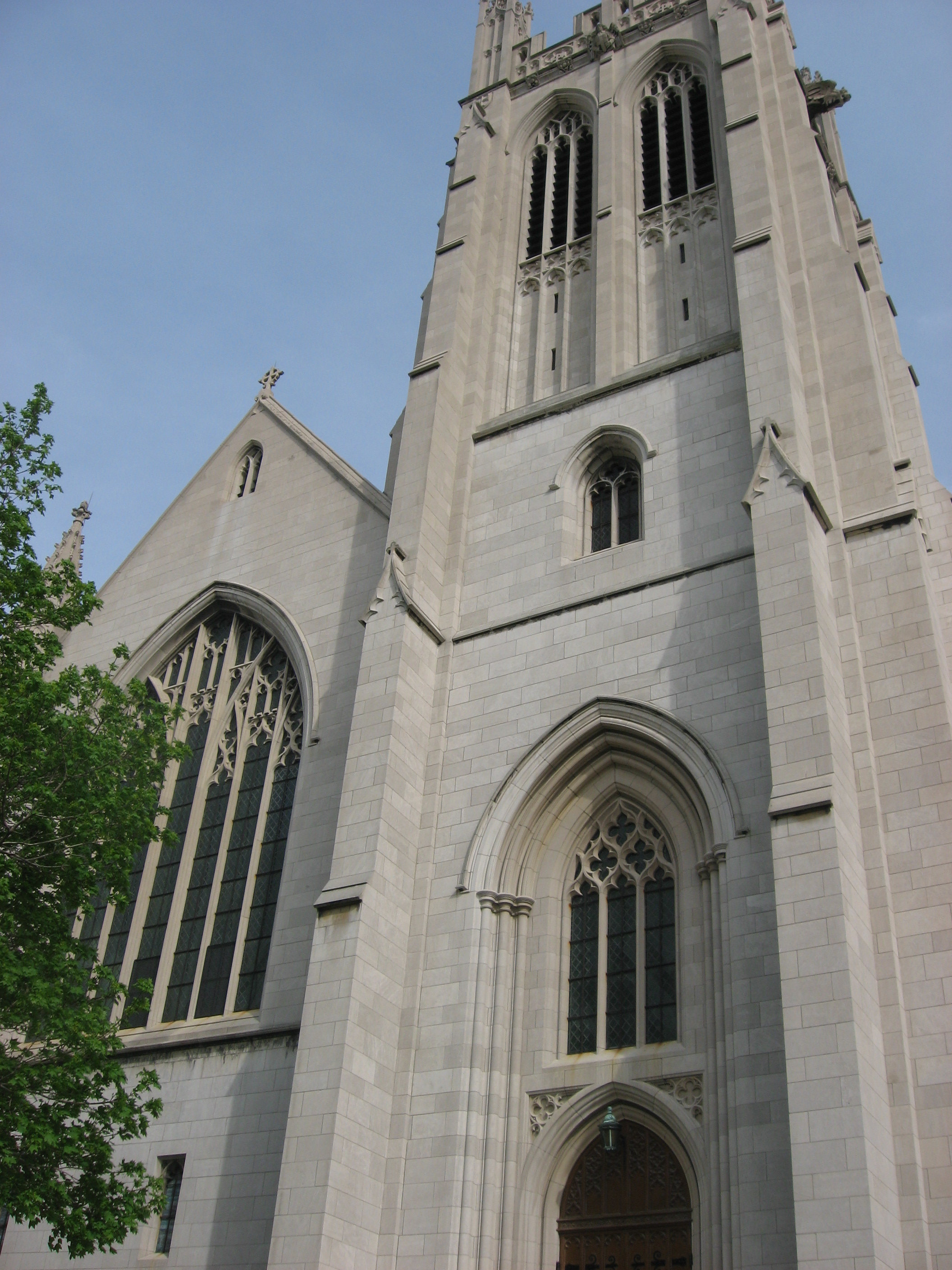 A picture of the front of Amasa Stone Chapel.